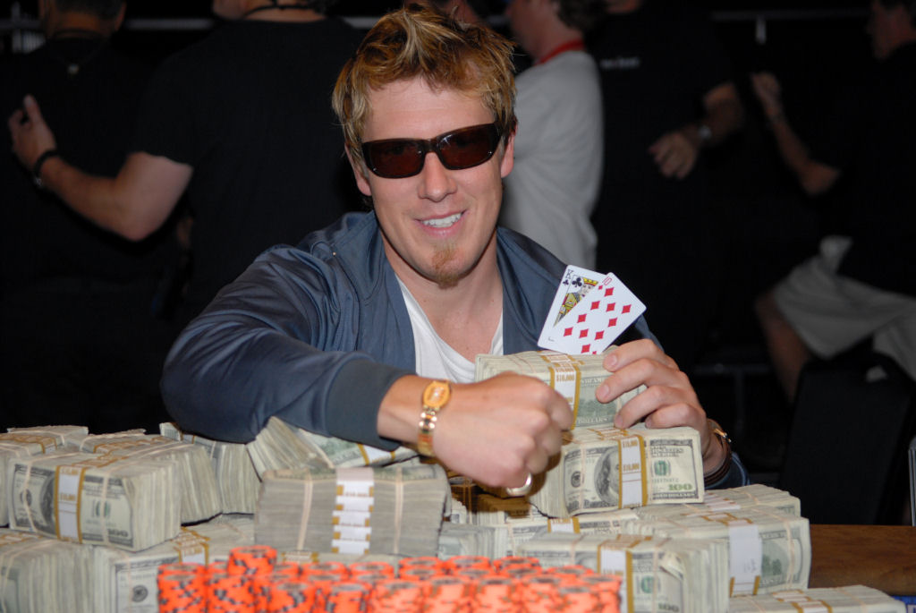 Ciaran O’Leary after winning event #3 in WSOP 2007.